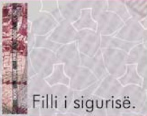 Filli i sigurise